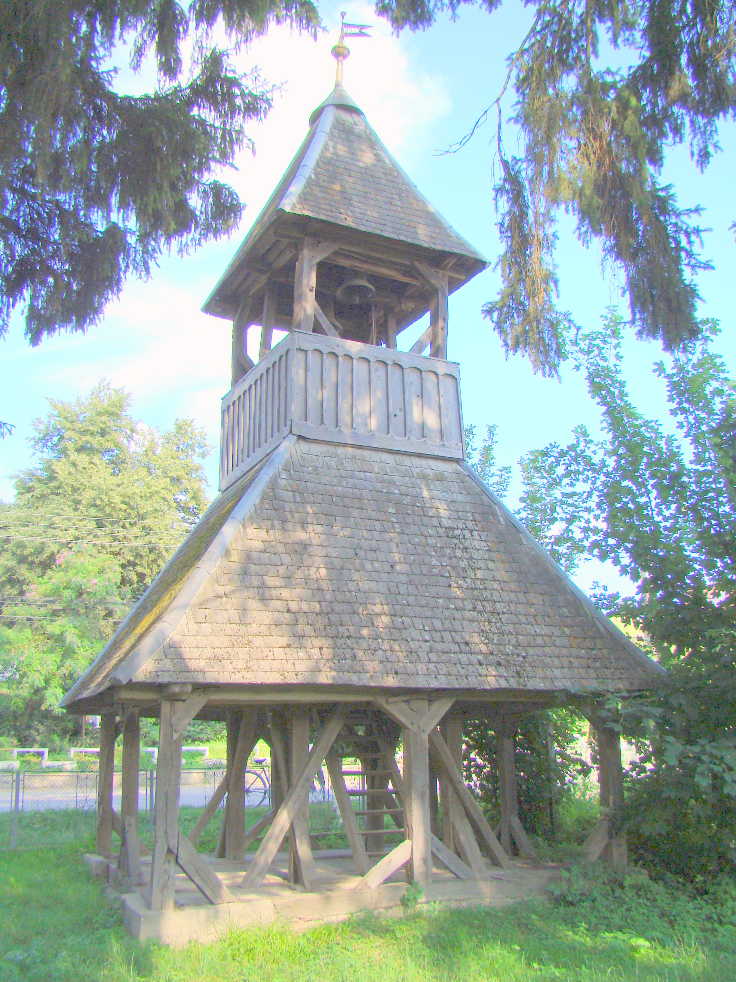 Bellfry of the reformed church in Nușeni, Bistrița-Năsăud county, Romania